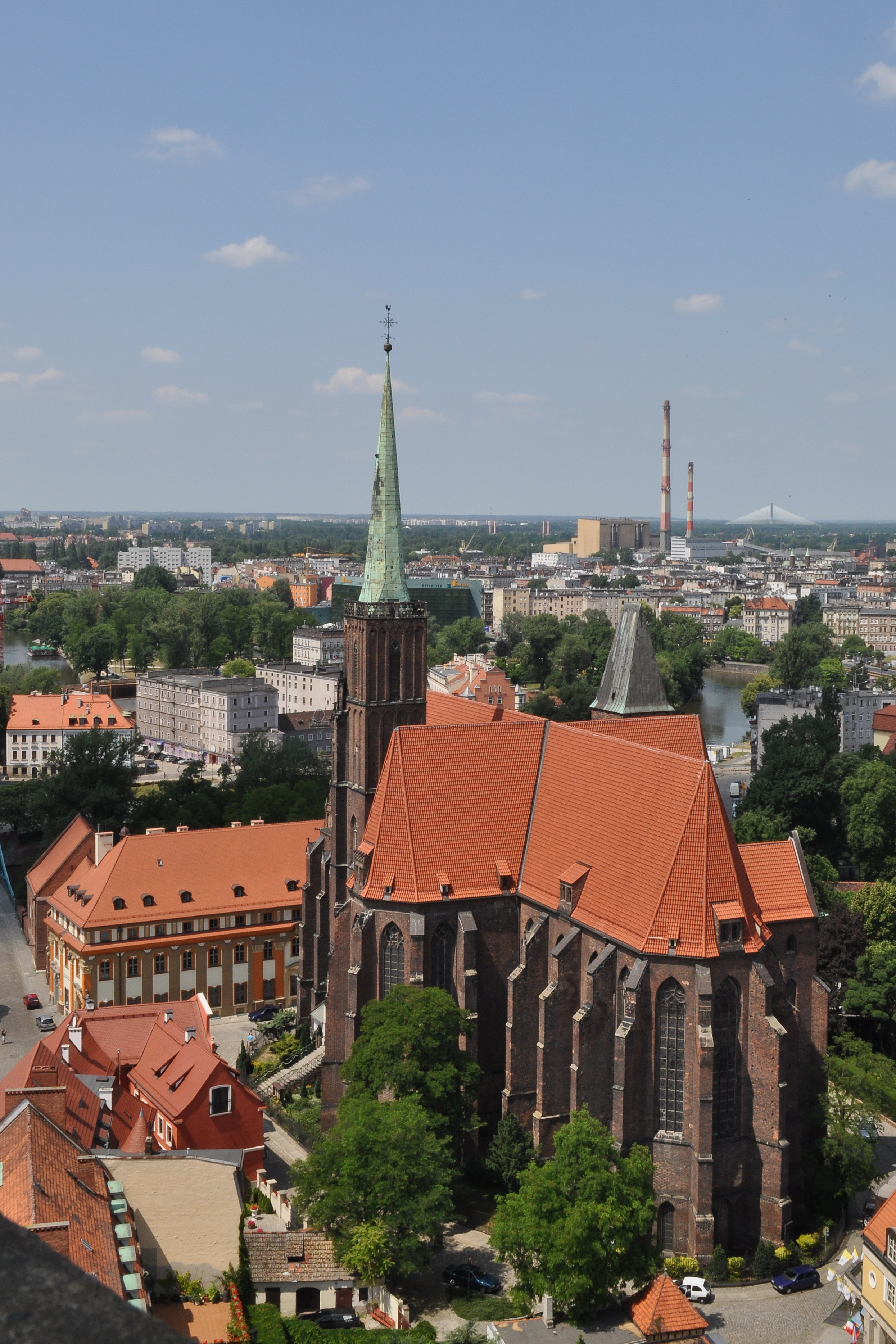 The church of the Holy Cross in Wrocław